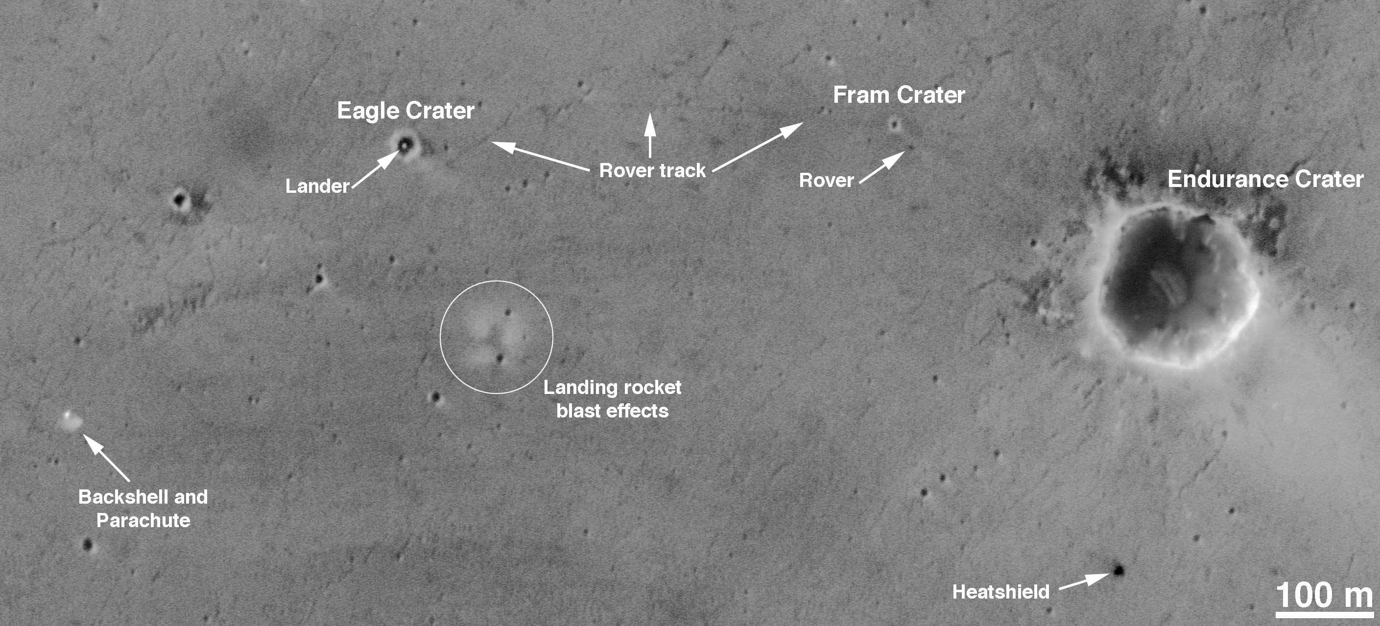 NASA's Mars Exploration Rover Opportunity landed on the red planet a year ago. This enhanced-resolution image from the Mars Orbiter Camera on NASA's Mars Global Surveyor orbiter is the only picture obtained thus far (by Jan. 24, 2005) that shows the tracks made by Opportunity. The image was acquired on April 26, 2004, during Opportunity's 91st martian day, or sol. That was the first day of Opportunity's extended mission, and the rover had recently completed exploration of small "Fram Crater" on the route from its landing site toward "Endurance Crater," where it would eventually spend six months. The rover itself can be seen in this image -- an amazing accomplishment, considering that the orbiter was nearly 400 kilometers (nearly 250 miles) away at the time! Also visible and labeled on this image are the spacecraft's lander, backshell, parachute and heat shield, plus effects of its landing rockets. The camera captured this image with use of a technique called compensated pitch and roll targeted observation. In this method, the entire spacecraft rolls as it passes over the target area so the camera can scan in a way that sees details at three times higher resolution than the camera's normal high-resolution capability. The tracks made by Opportunity on the sandy surface of Meridiani Planum are not quite as visible from orbit as are the tracks made in Gusev Crater by the other Mars Exploration Rover, Spirit. A dustier surface at the Spirit site increases contrast between the tracks and the surrounding surfaces. Indeed, some parts of the track made by Opportunity are not visible in this image. Sunlight illuminates the scene from the left. North is toward the top of the image. The 100-meter scale bar is 109 yards long.